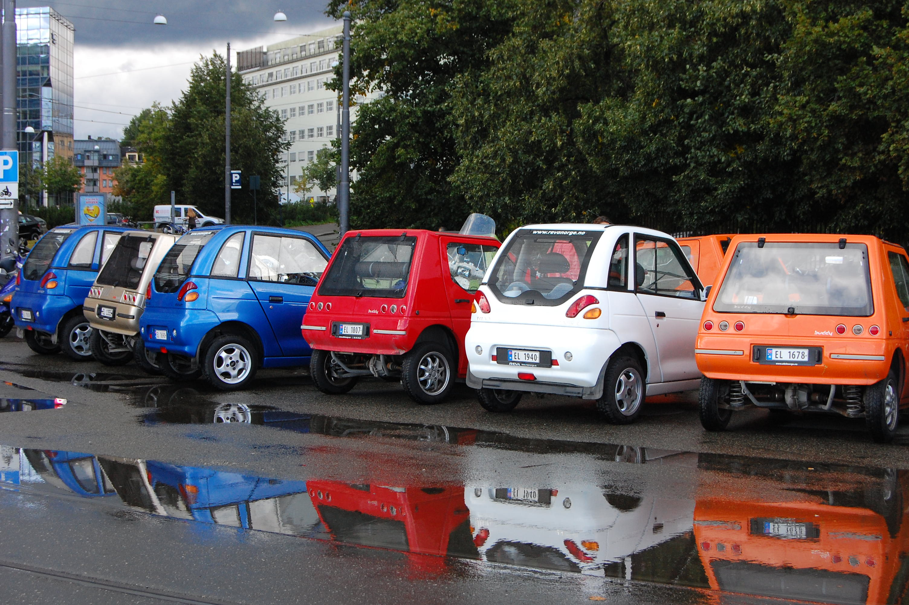 Buddy and Reva electric cars parked in Oslo, Norway.